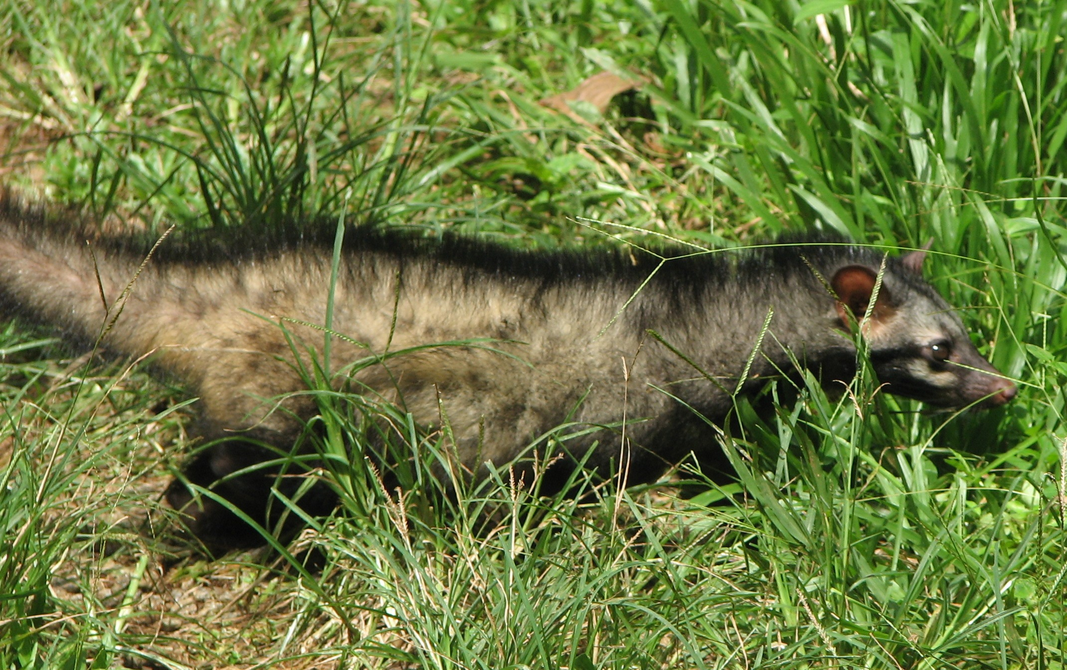 Asian Palm Civet or Common Palm Civet Walking